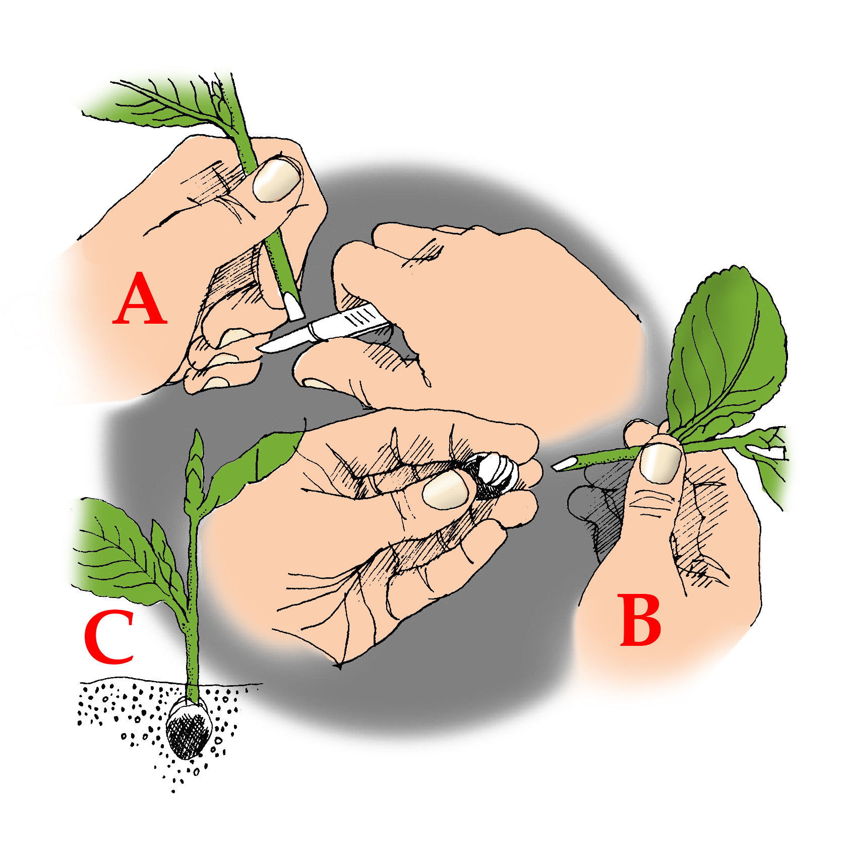 Nurse grafting Camellia